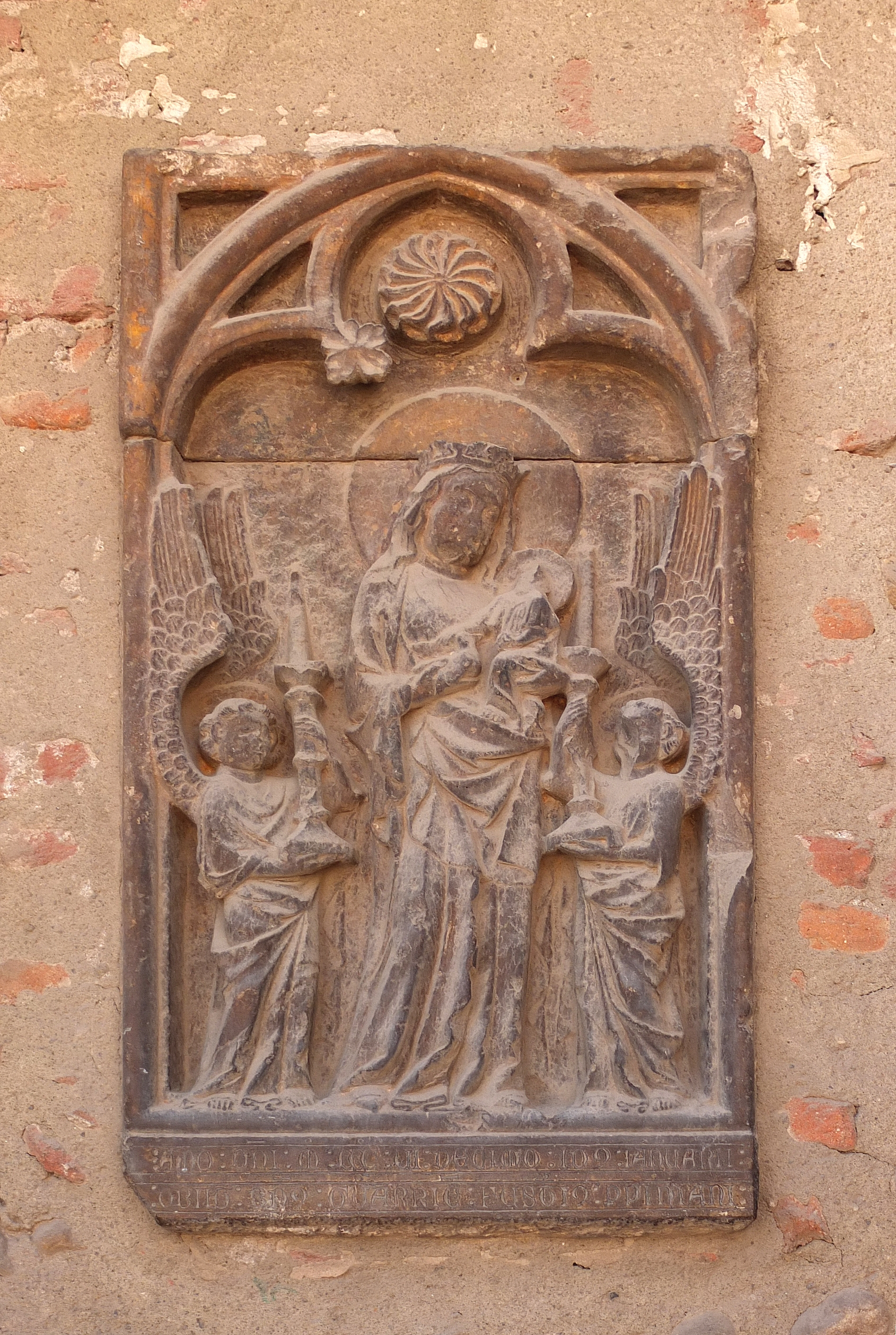 Campo Santo in Perpignan, stone relief depicting virgin and child between two angels, 14th century.